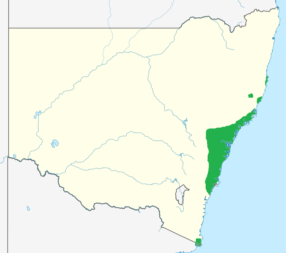 Persoonia levis range, adapted from Weston, Peter H. (1995) "Persoonioideae " in McCarthy, Patrick (ed.) , ed. Flora of Australia: Volume 16: Eleagnaceae, Proteaceae 1, CSIRO Publishing / Australian Biological Resources Study, pp. 47–125 ISBN: 0-643-05693-9. . Original map is png version of File:Australia New South Wales location map blank.svg